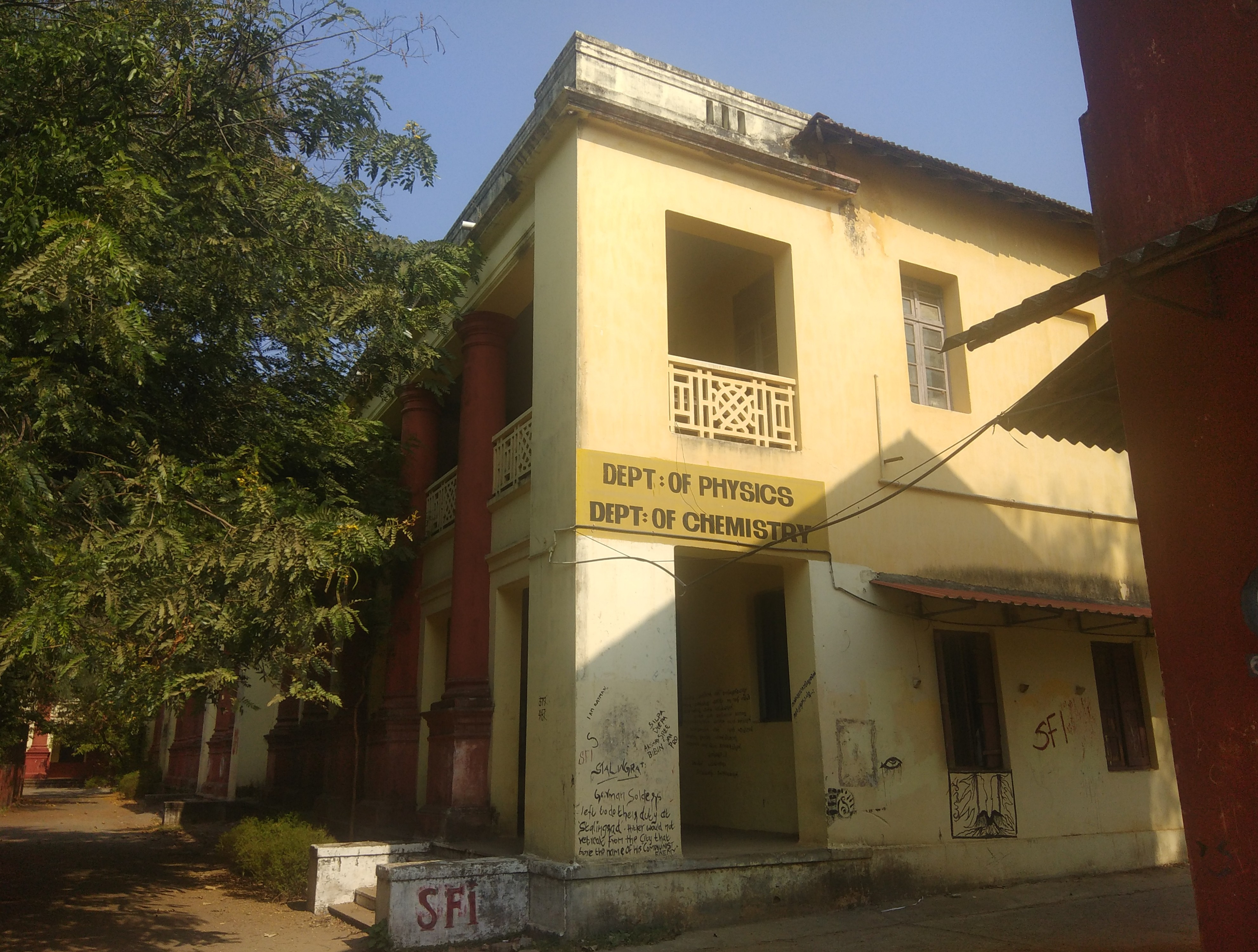 Govt Victoria College Palakkad Campus